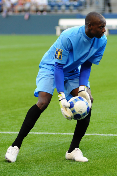 Photo of soccer player, Desmond Noel. Wilson Wong photo.